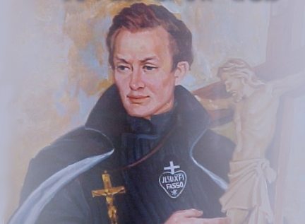 Paul of the Cross - Cropped from StPaul.jpg